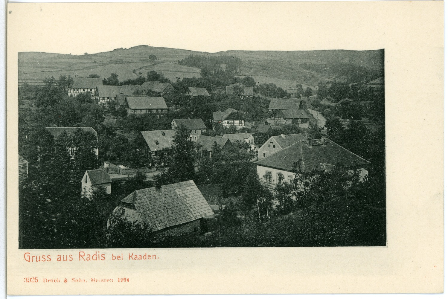 This postcard is from publisher Brück & Sohn in Meißen ( This postcard has a unique number 03925 and is available in a higher resolution at the publisher. This images was uploaded in a cooperation project between Wikipedians and the publisher.